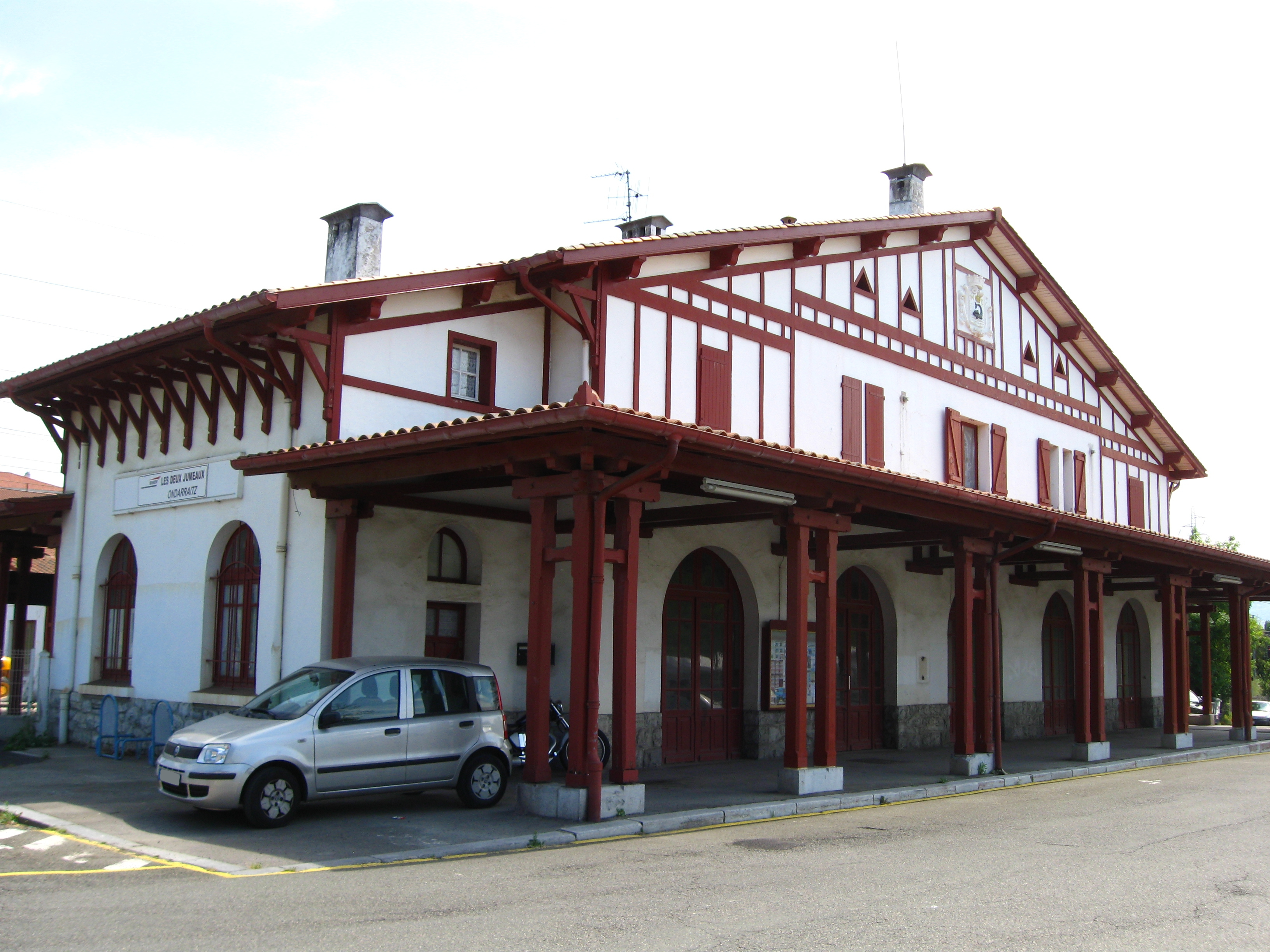 The SNCF railway station Deux Jumeaux-Ondarraitz